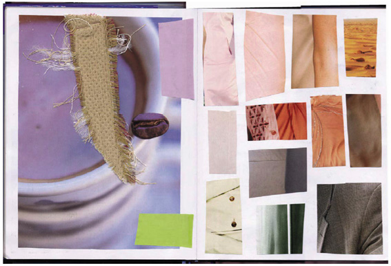 set design for - color scheme.